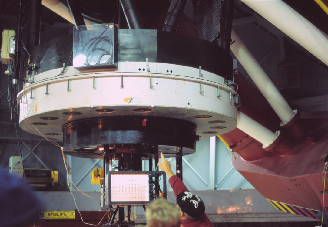 Telescope Bernard Lyot, Pic du Midi, Hautes-Pyrenees, France